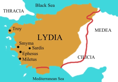 Edge of the brown area is the border of Lydia at the middle of the 6th century BC. The red line is the different border shown in the second map.